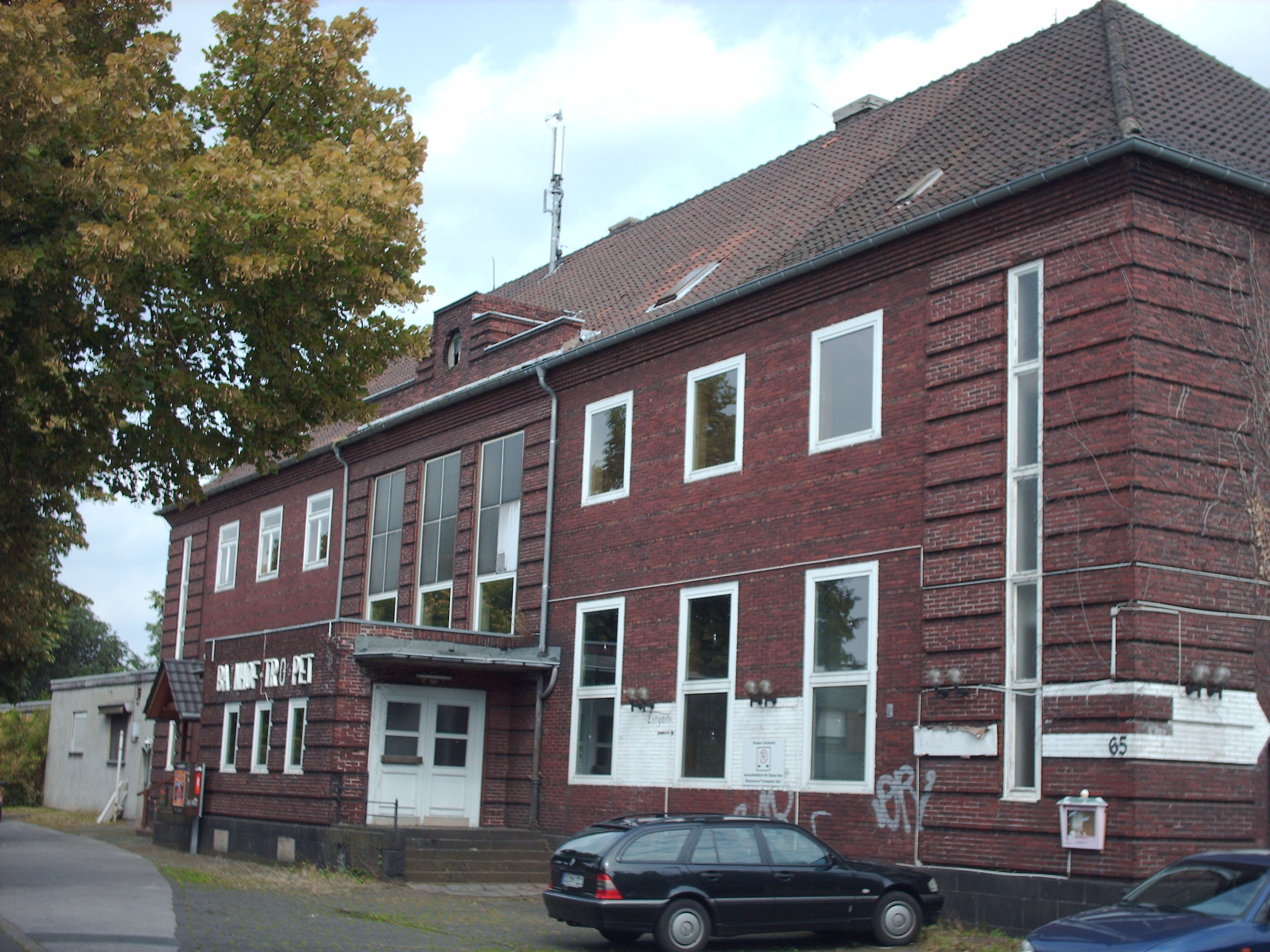 Trompet station, Duisburg, Germany check usage